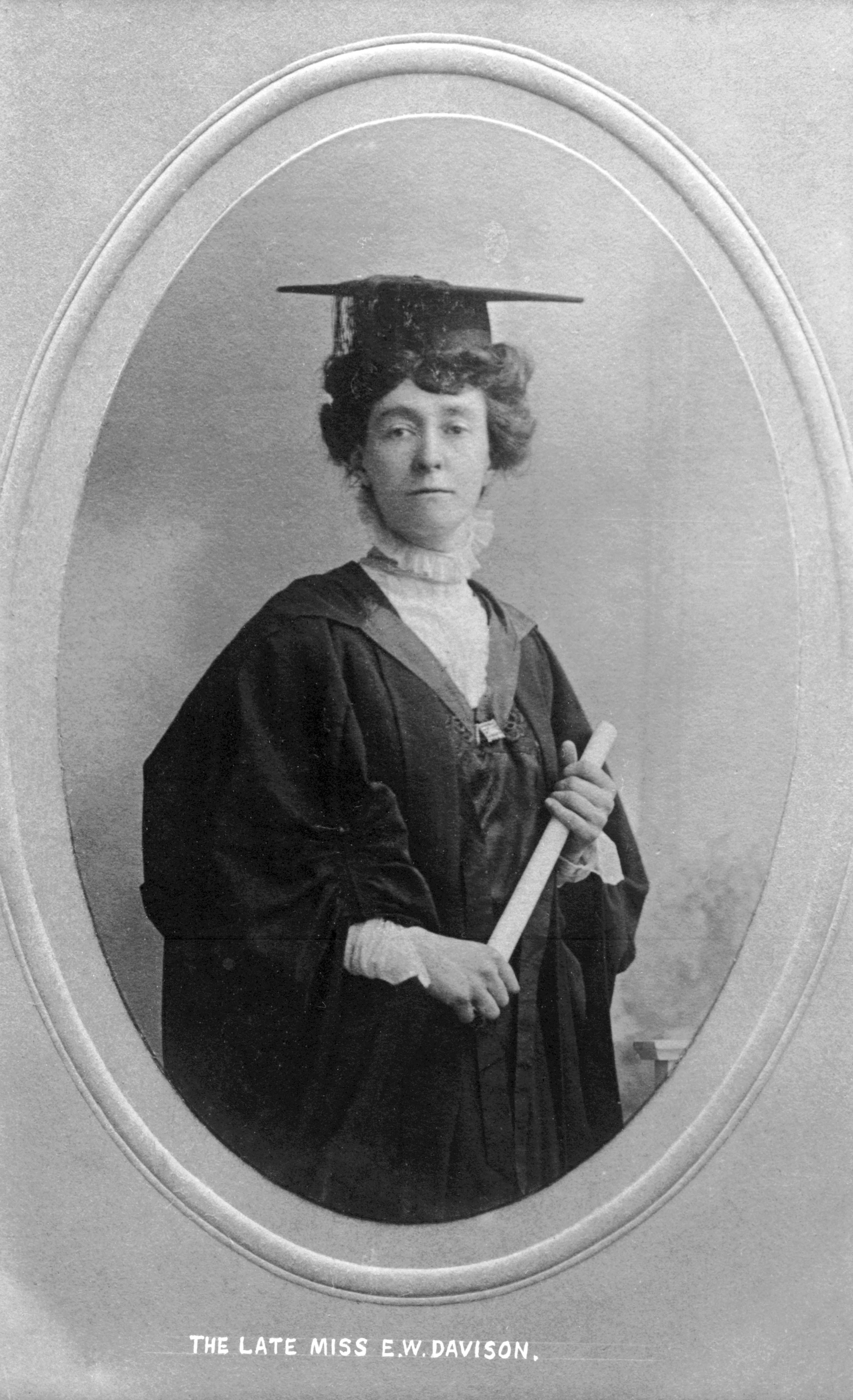 The English suffragette Emily Davison, on her graduation in 1908